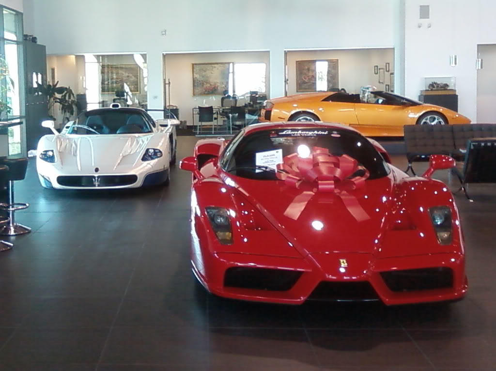 Old cell phone pic of Maserati MC12 and Enzo Ferrari on display @ Lamborghini Las Vegas.